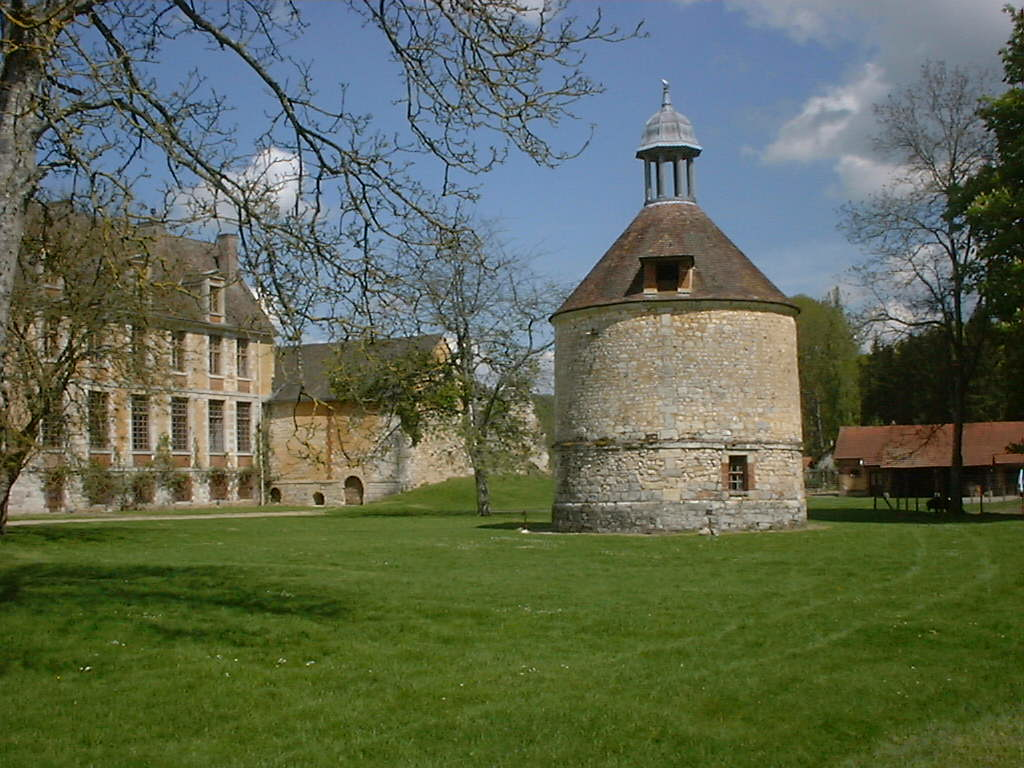 A photo of the Abbaye de Mortemer with the Pigeon Loft in view.